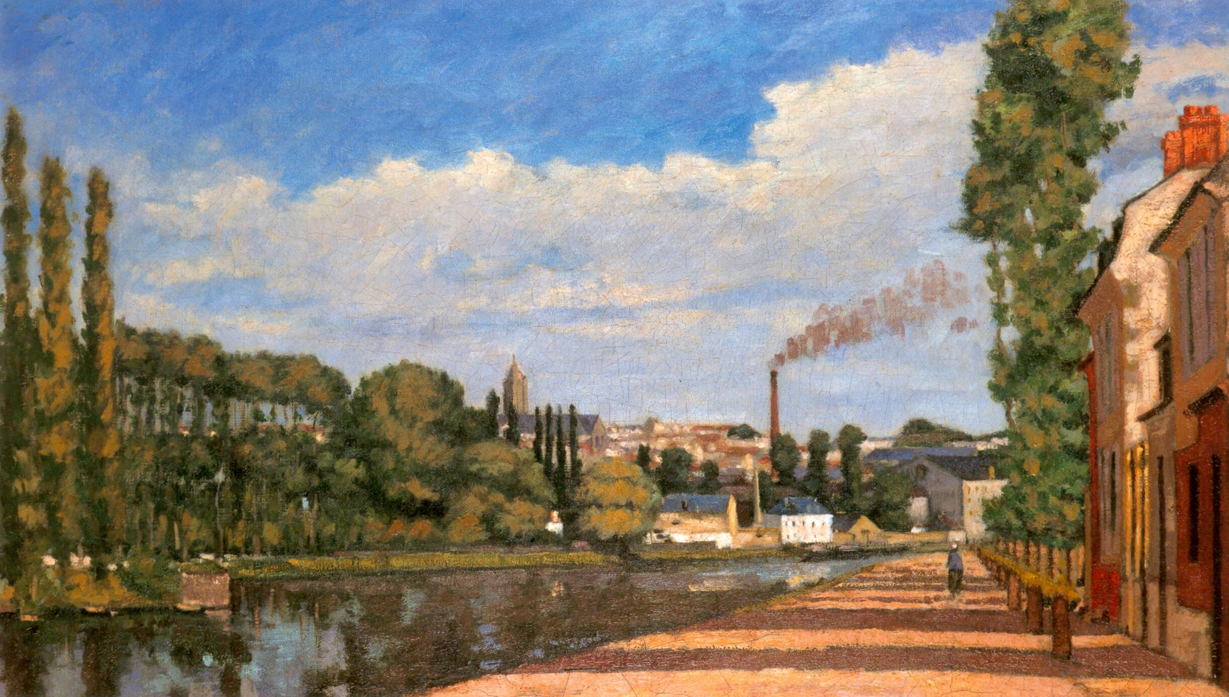 Pontoise-vue-depuis-l-ecluse